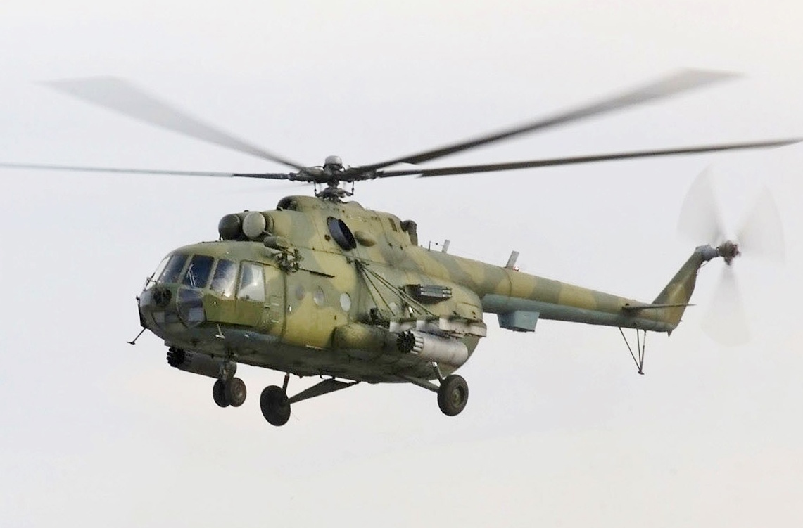 Kazakhstan officials, in a Kazan Mi-17 helicopter, fly into the drop zone area during an international mass jump into Kazakhstan. Paratroopers from Kazakhstan, the United States and Turkey are descending into Kazakhstan to prepare for the the start of CENTRASBAT 2000. The Central Asian Peacekeeping Battalion exercise CENTRASBAT 2000 is a multi-national peacekeeping and humanitarian relief exercise sponsored by U.S. CENTCOM and hosted by the former the Soviet Republic Kazakhstan in Central Asia. Exercise participants include approximately 300 U.S. troops including personnel from U.S. CENTCOM, from the U.S. Army's 82nd Airborne Division, Fort Bragg, North Carolina, and 5th Special Forces Group, Fort Campbell, Kentucky, and approximately 300 Kazakhstan soldiers. Other participating nations include: Uzbekistan, Kyrgystan, The United Kingdom, Turkey, Russia, Georgia, Azerbaijan and Mongolia. The objective of CENTRASBAT is to strengthen militarytomilitary relationships and regional security, and to increase interoperability between NATO and partner nations. CENTRASBAT originated in 1996, and was concepted to form a battalion of soldiers from the former Soviet Republics of Kazakhstan, Kyrgystan and Uzbekistan to serve as a key component in developing a regional security and cooperation structure. The exercise will test U.S. and Central Asian units combat readiness and ability to conduct peacekeeping and humanitarian operations, as well as develop and build cooperative relationships between the respective states and assist in laying the foundation for future peacekeeping and humanitarian operations.